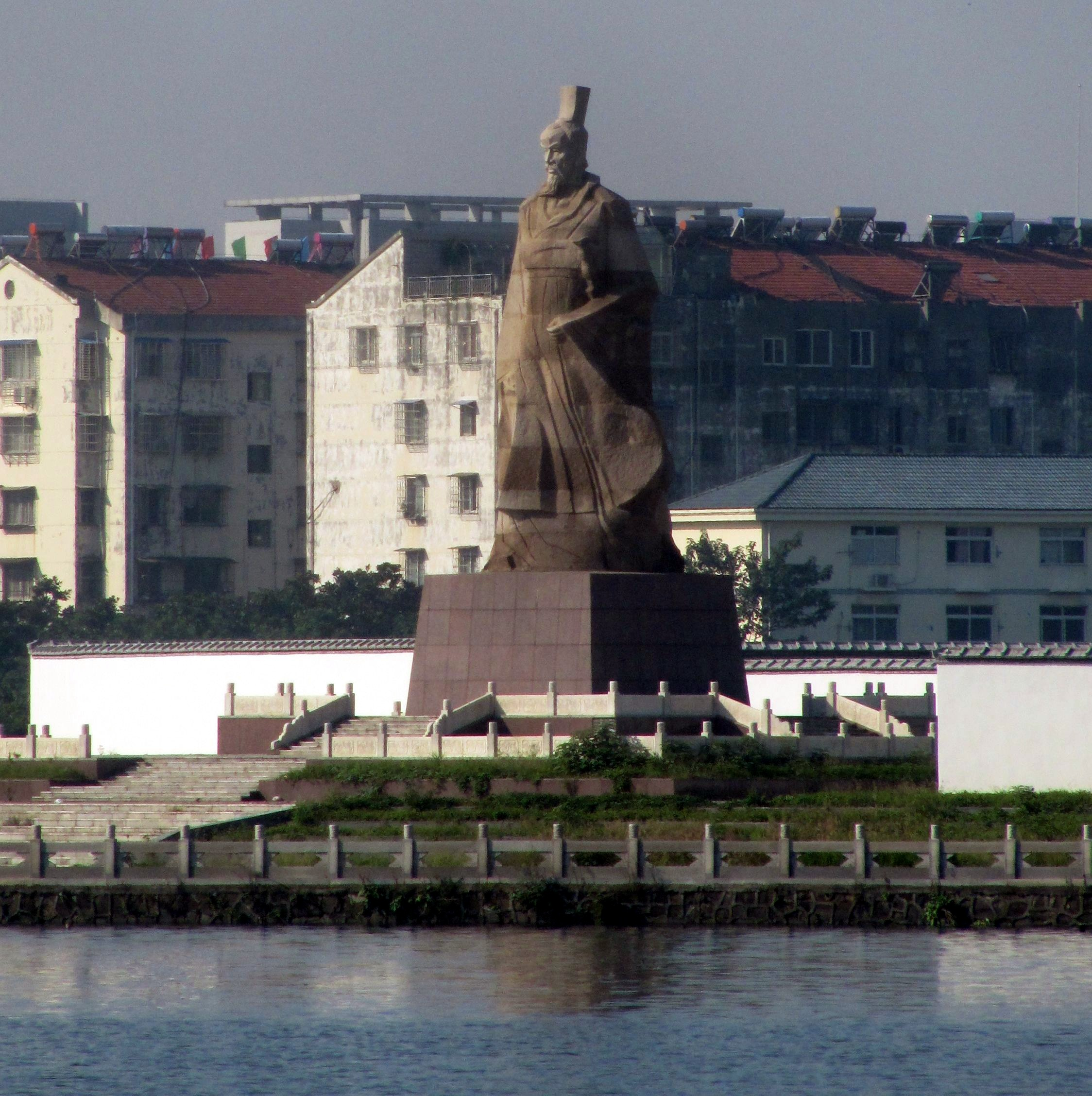 Qu Yuan (屈原) giant statue in front of ancient Jingzhou Chuguo 楚国 capitale. in today Hubei province, China